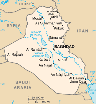 Map of Iraq showing major cities.